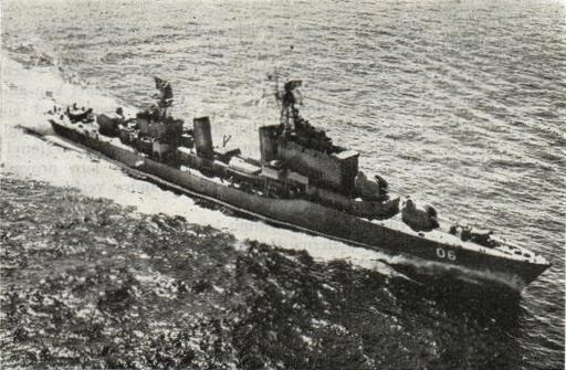 Colombian destroyer ARC 7 de Agosto, built in 1958 in Sweden.